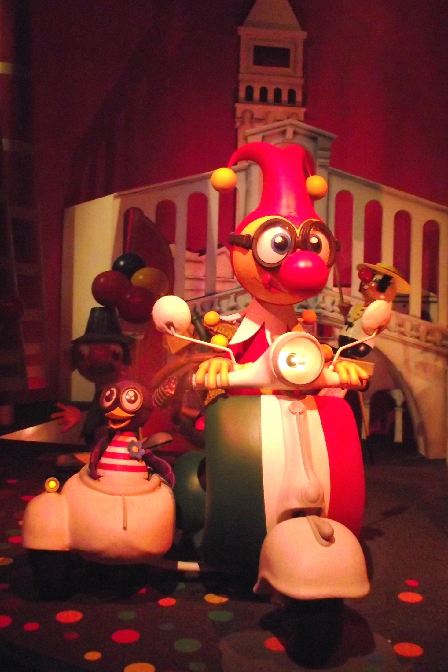 Carnaval festival at Efteling